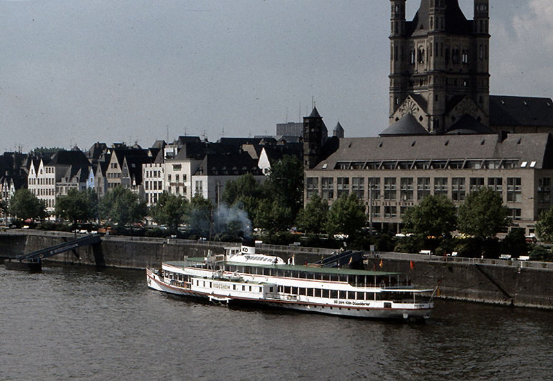 Paddle Steamer Rüdesheim in Cologne